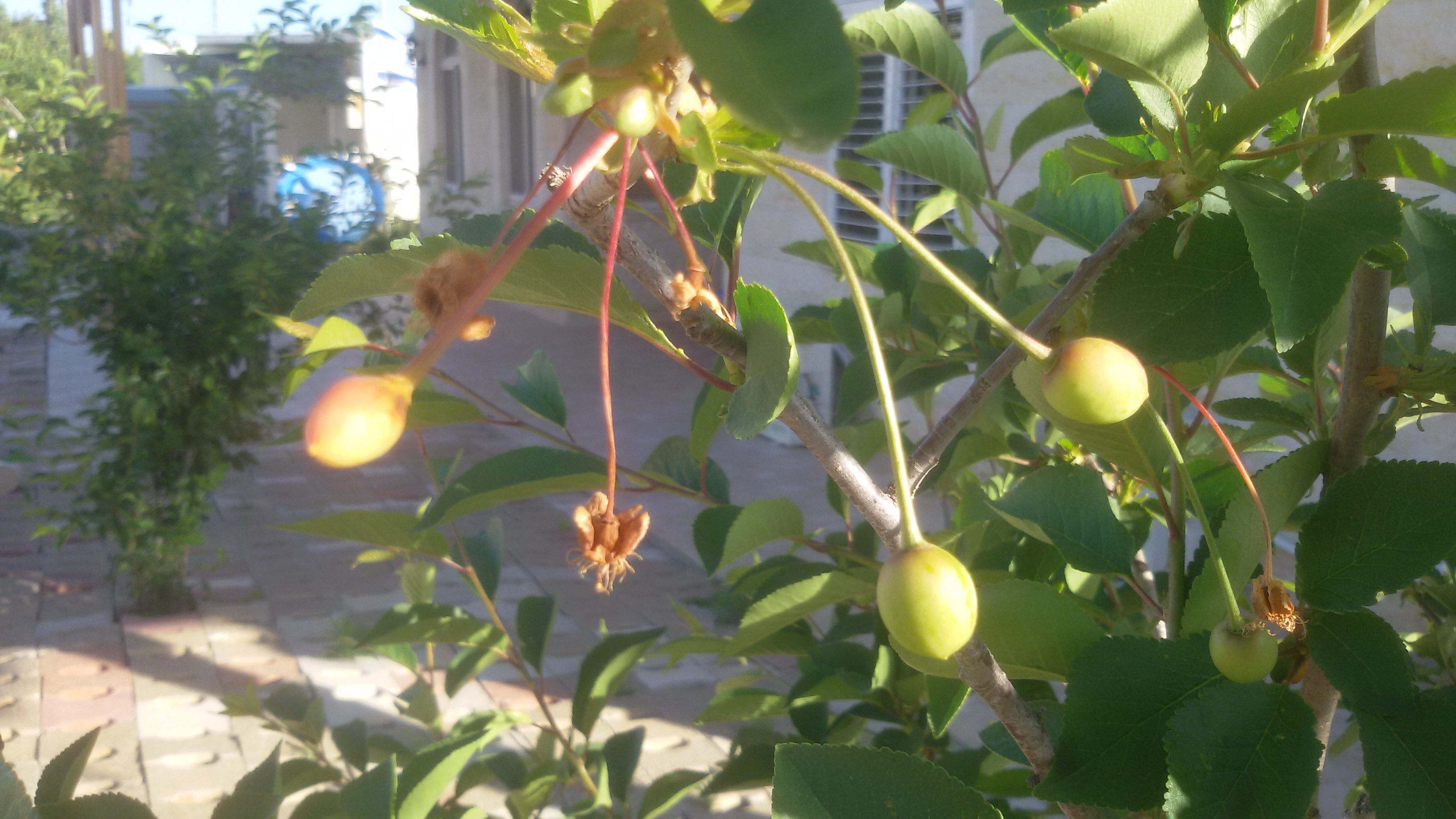 Young cherry tree with green unripe cherry fruits